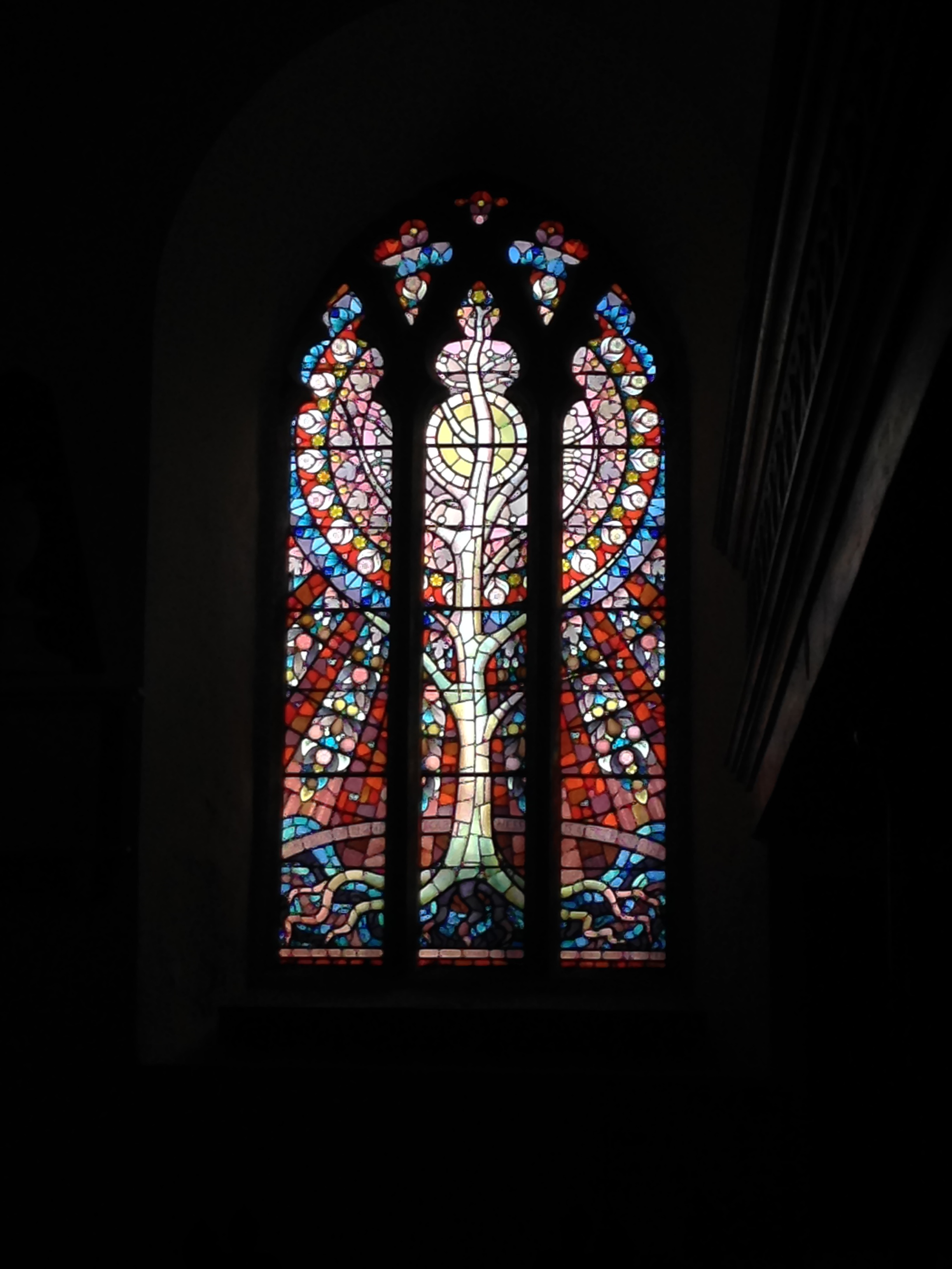 St Peter's Church Wikidata has entry Q17722469 with data related to this item.